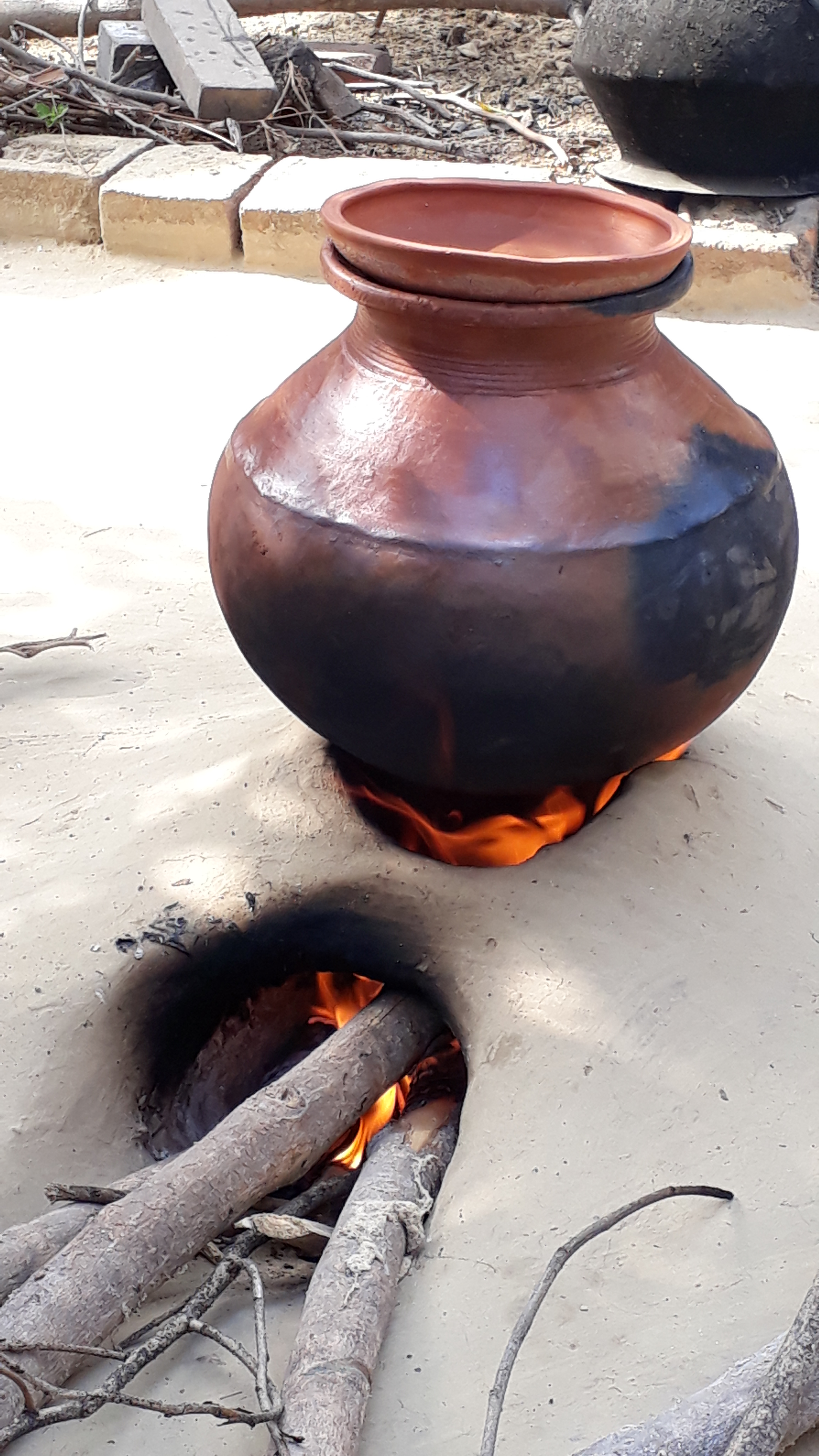 Chulha has many forms but the most common of it is made with soil. The wood and coal is generally used as a source of heat to cook food on this chulha. This photo has been taken in the country: India